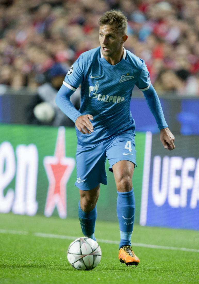 Domenico Criscito